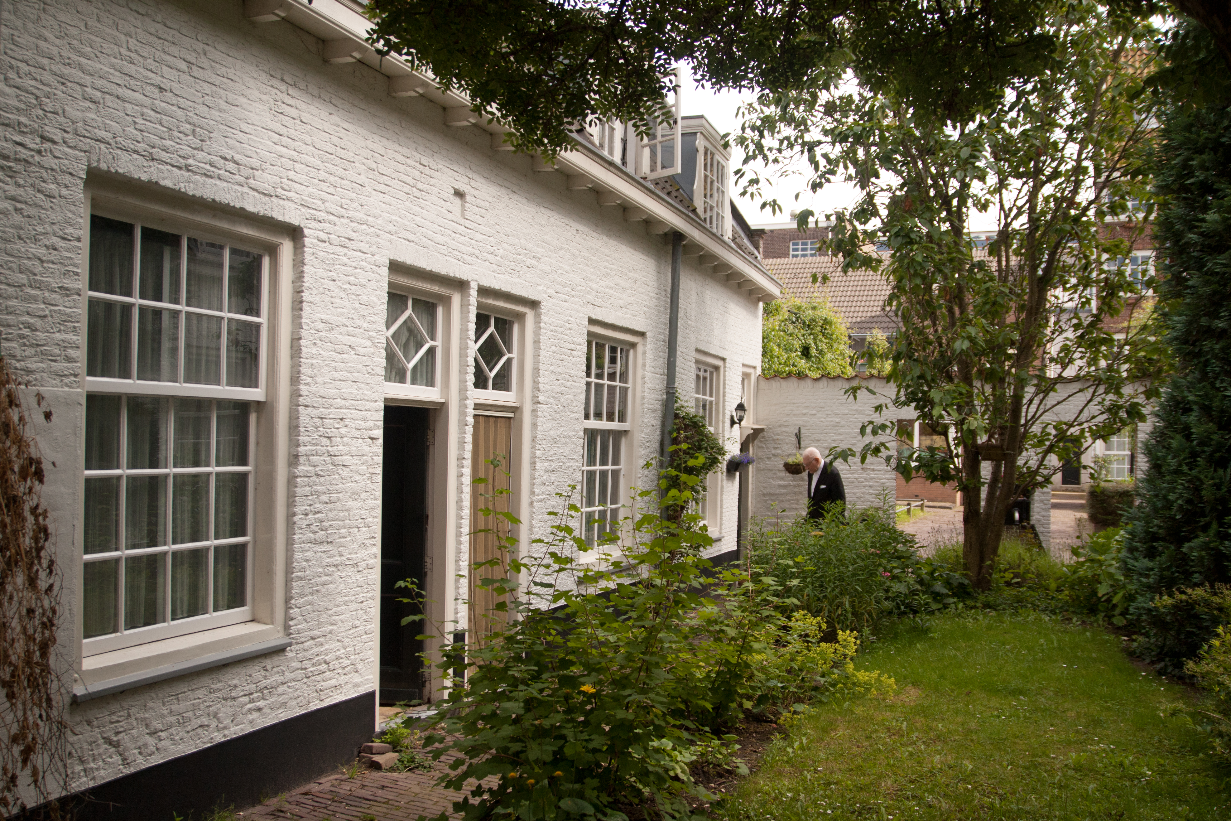 Pieter Gerritz Speckhof, Leiden. Dutch linguist Piet Paardekooper (1920-2013) taking a walk in the garden next to his house.